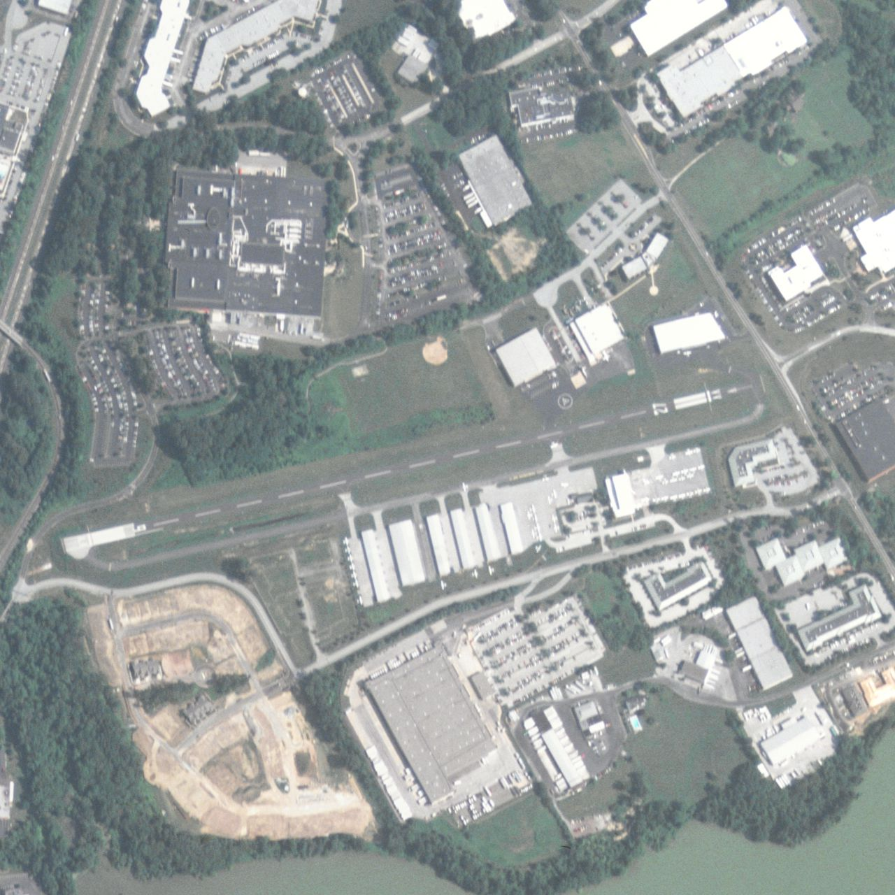 USGS orthophoto of Brandywine Airport (KOQN) in West Goshen Township, Chester County, Pennsylvania